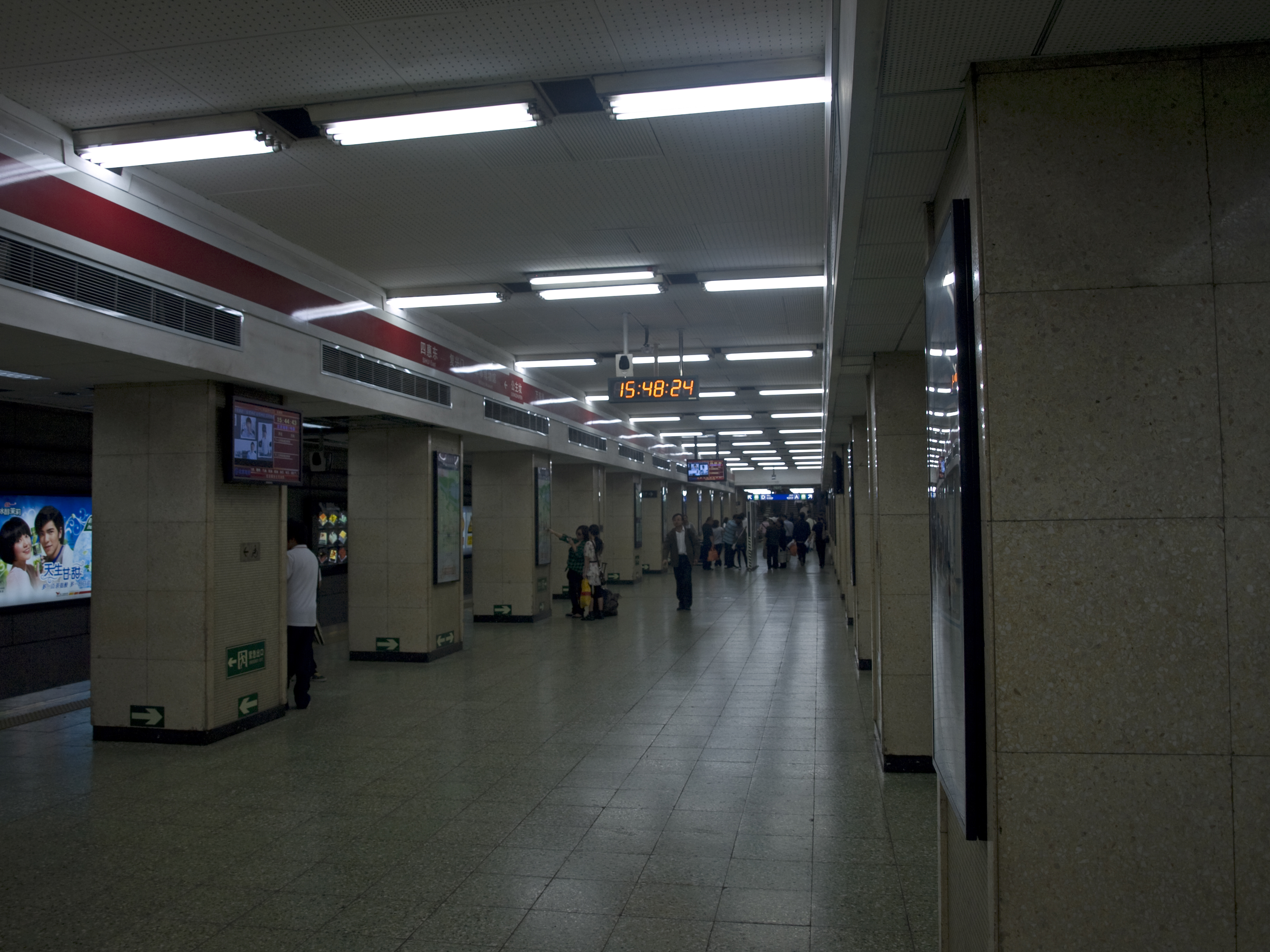 Gongzhufen station, Beijing Subway